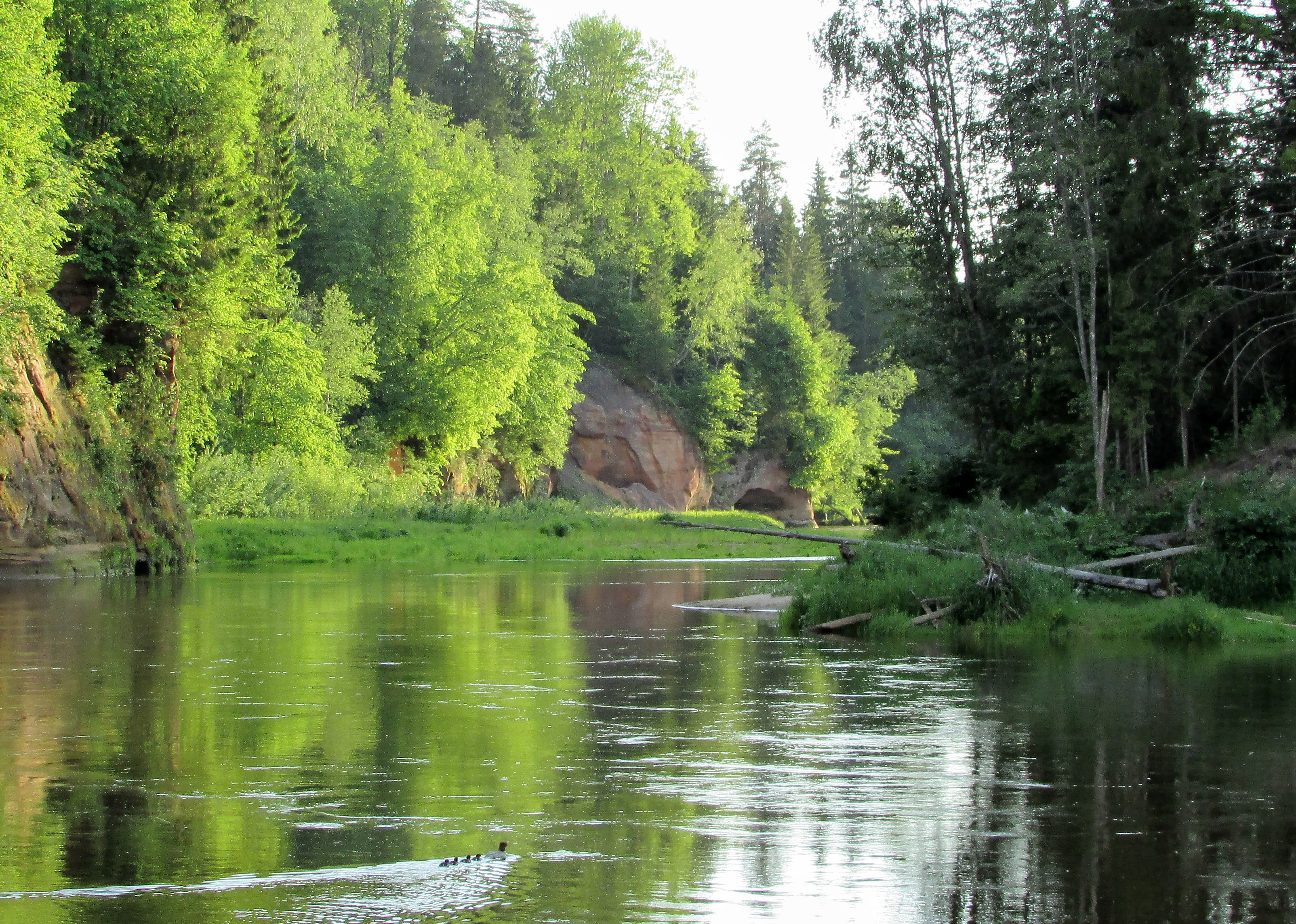 Spriņģi rock, devonian sandstone formation by the river Gauja. 600 m long, 21 m high.